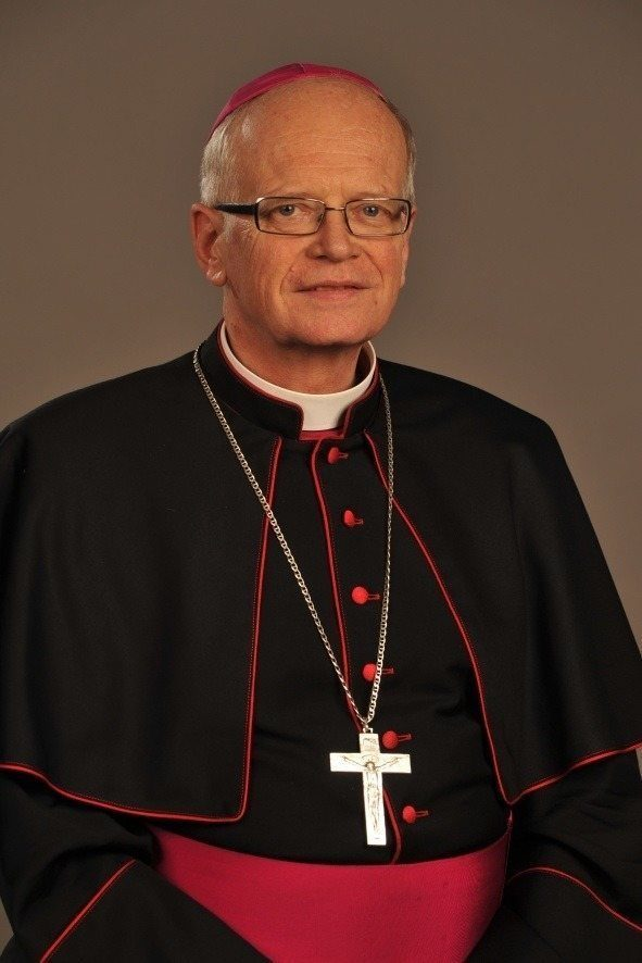 Bishop Frantisek Vaclav Lobkowicz